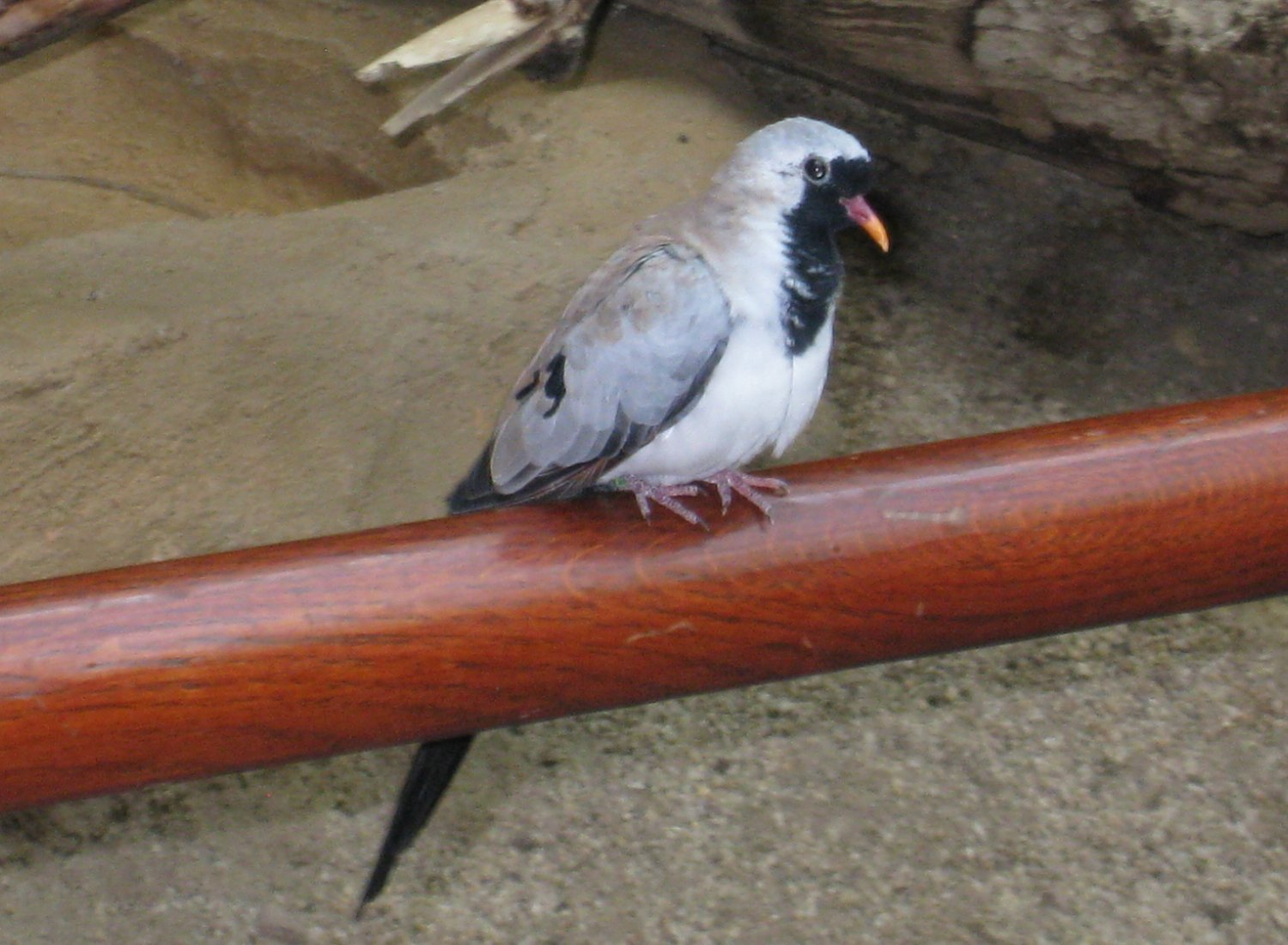 Photo of a Namaqua Dove taken at the Toledo Zoo.